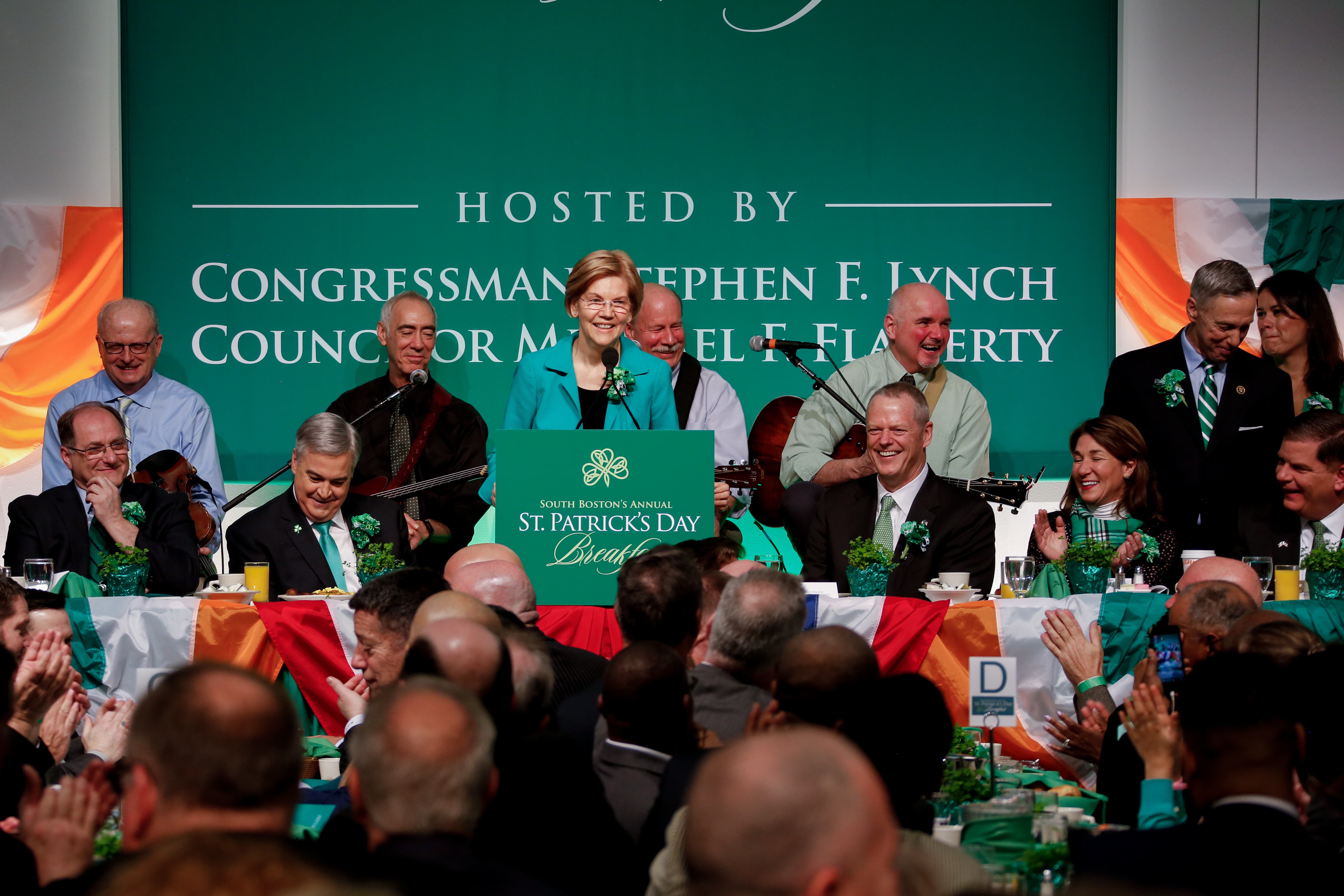 South Boston, MA